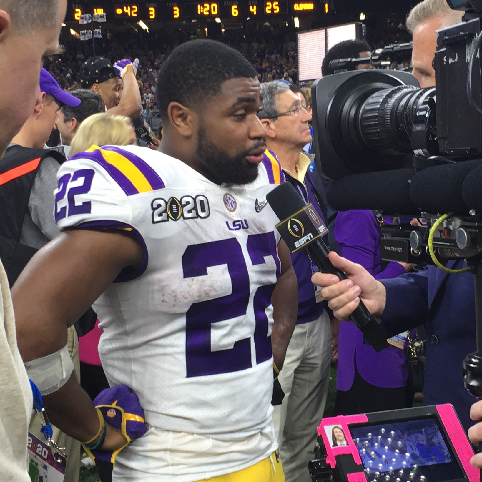 Clyde Edwards-Helaire, running back for LSU, immediately after the 2020 College Football Playoff National Championship in the Mercedes-Benz Superdome in New Orleans.